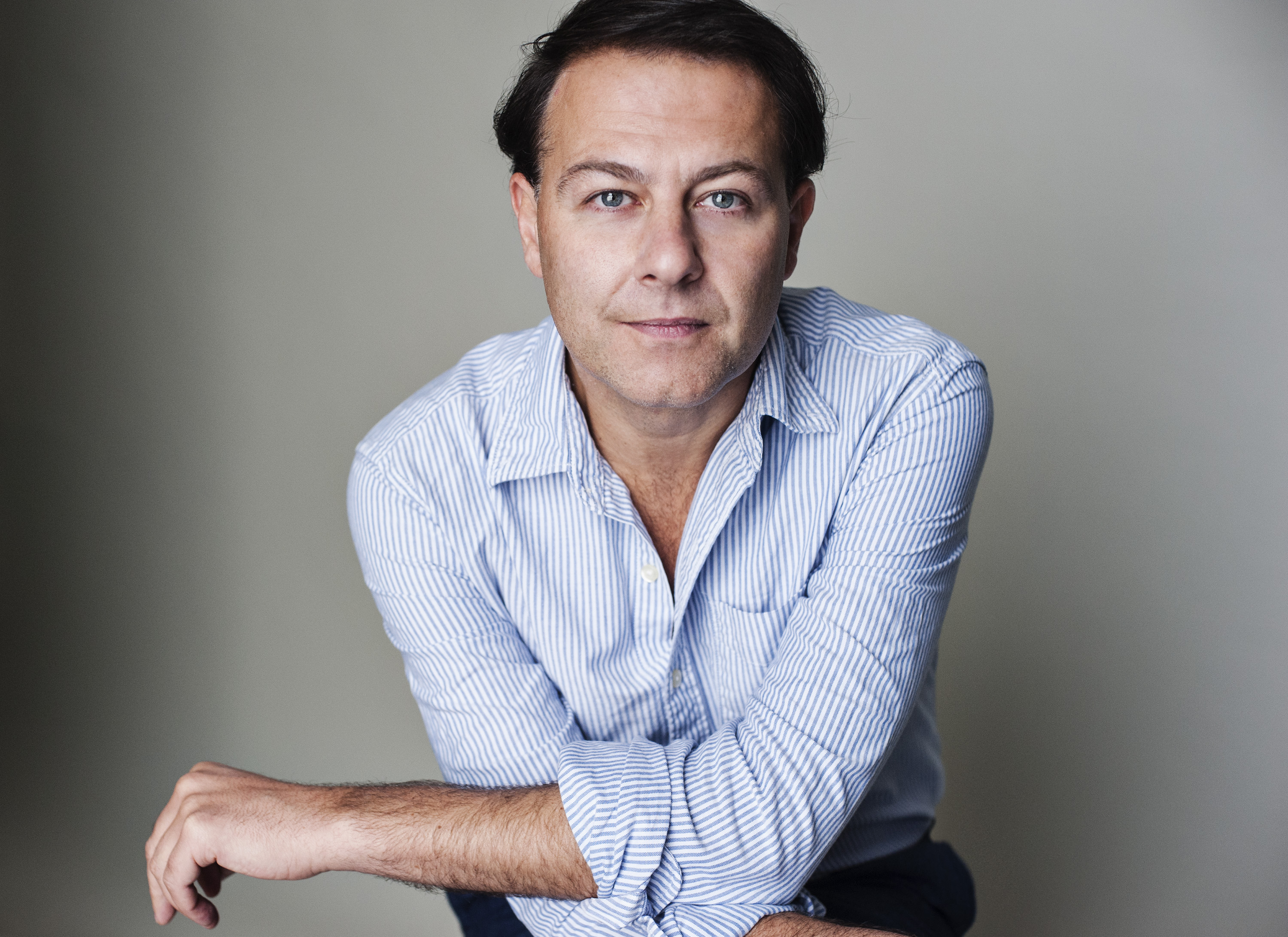 Taken by Ruth Crafer